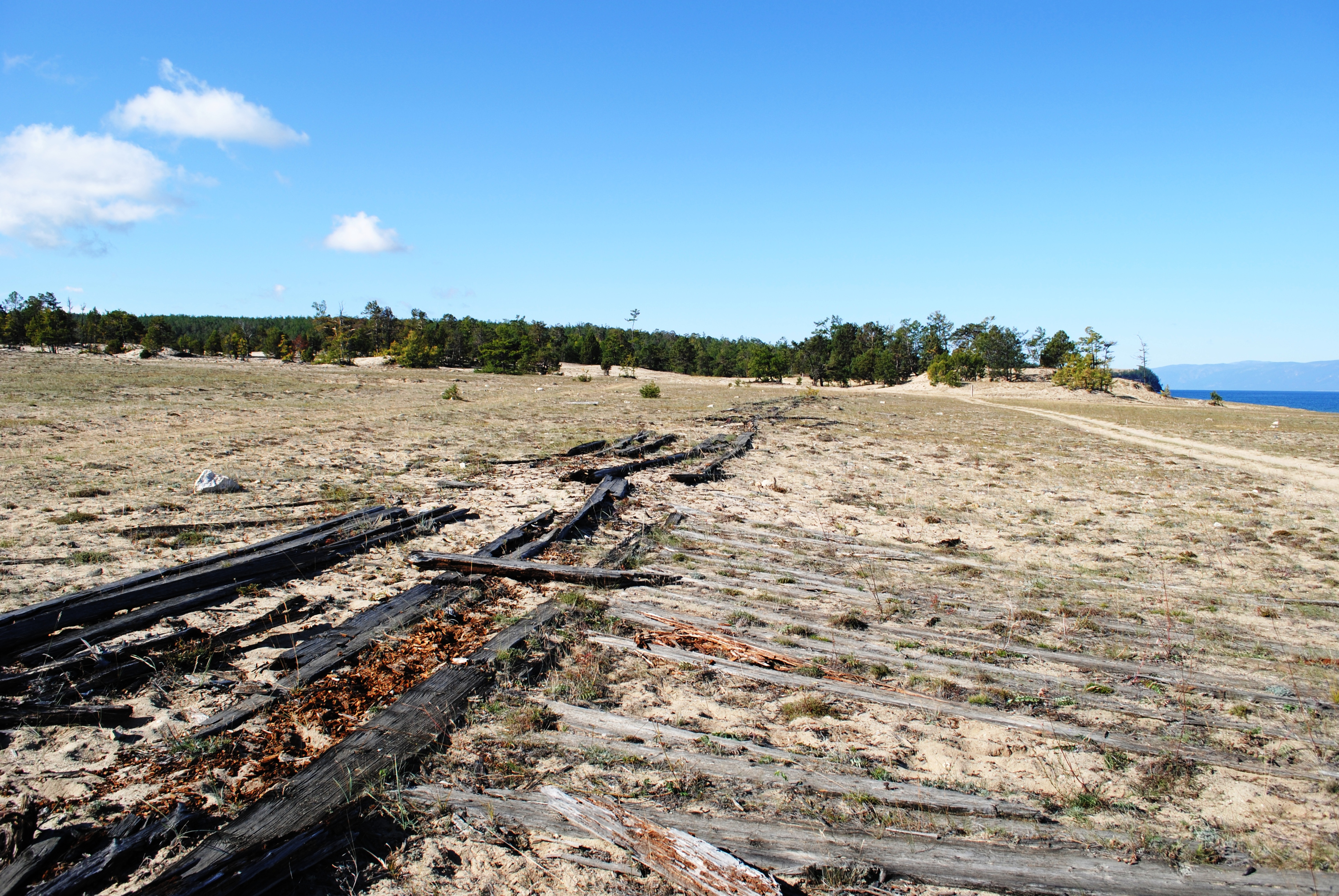 Olkhon